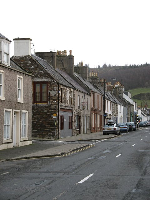 Gatehouse of Fleet The High Street, formerly the busy A75. Gatehouse of Fleet is now by-passed by a long straight stretch of road to the south.